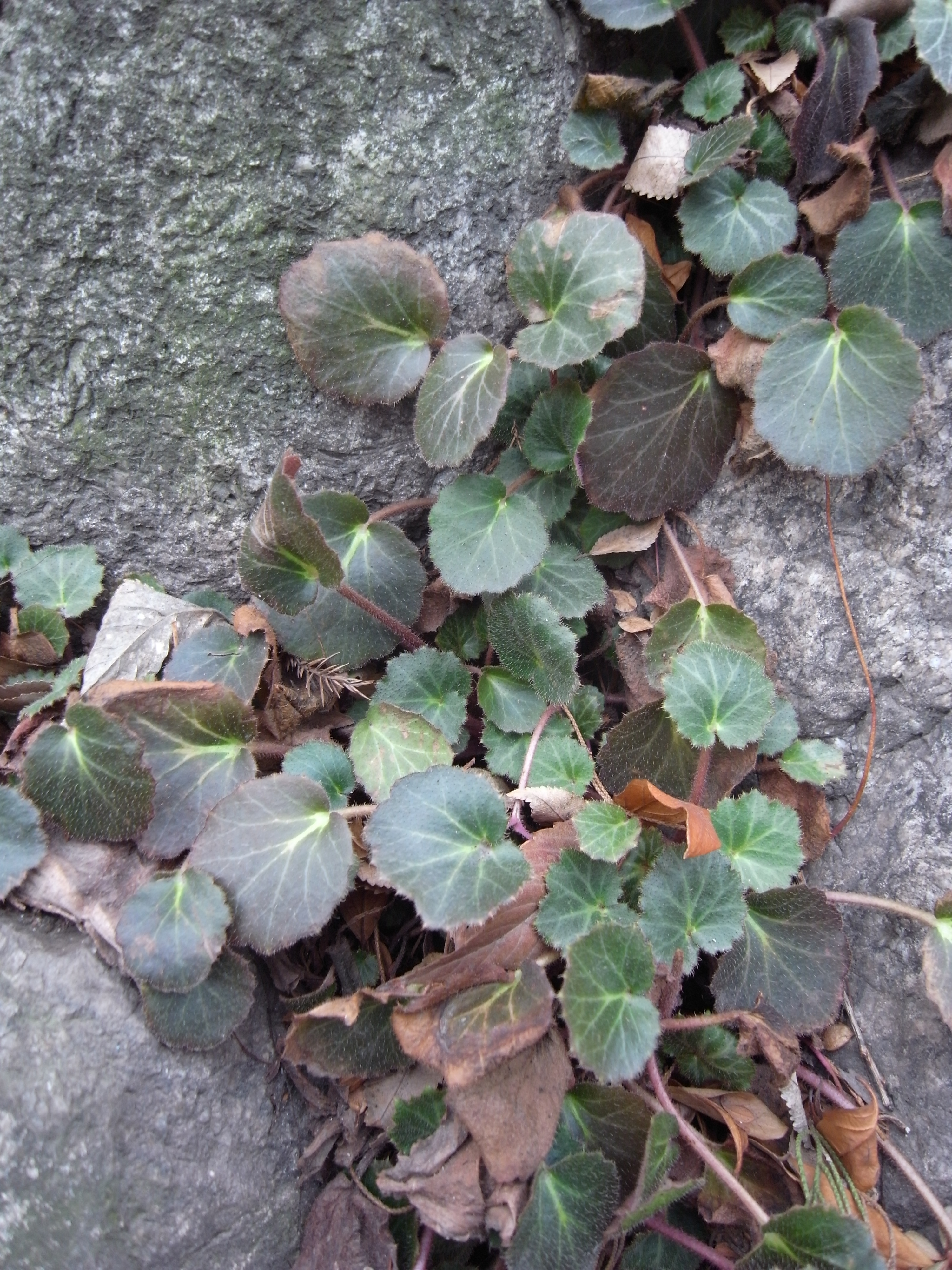 Saxifraga stolonifera in Seoul, Korea